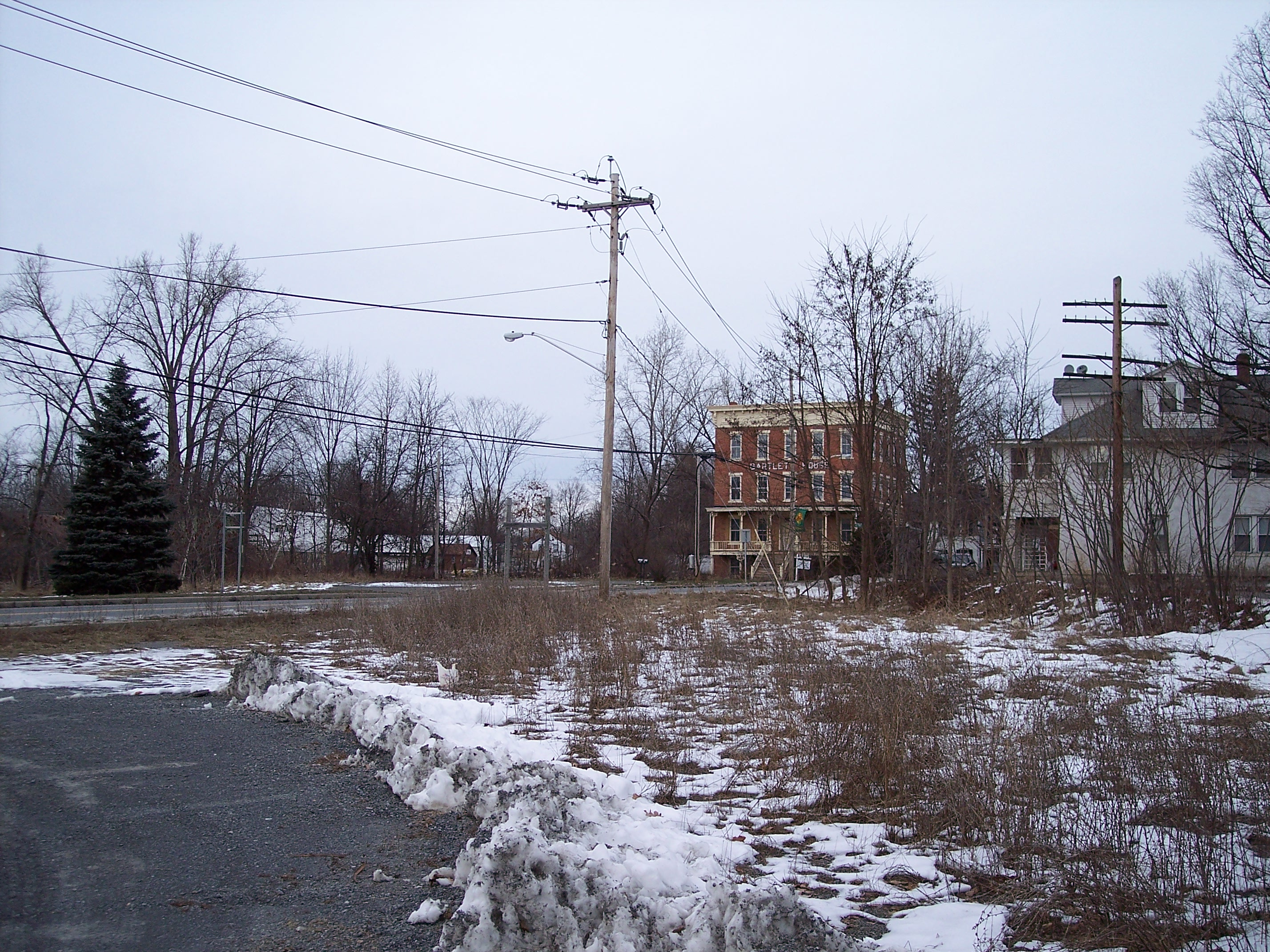 General location of the former Ghent train station.